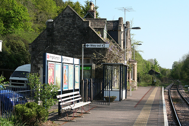 Chulmleigh: King's Nympton railway station On the Tarka Line between Exeter and Barnstaple. Looking south in the Exeter direction. The station is actually in the parish of Chulmleigh rather than King's Nympton